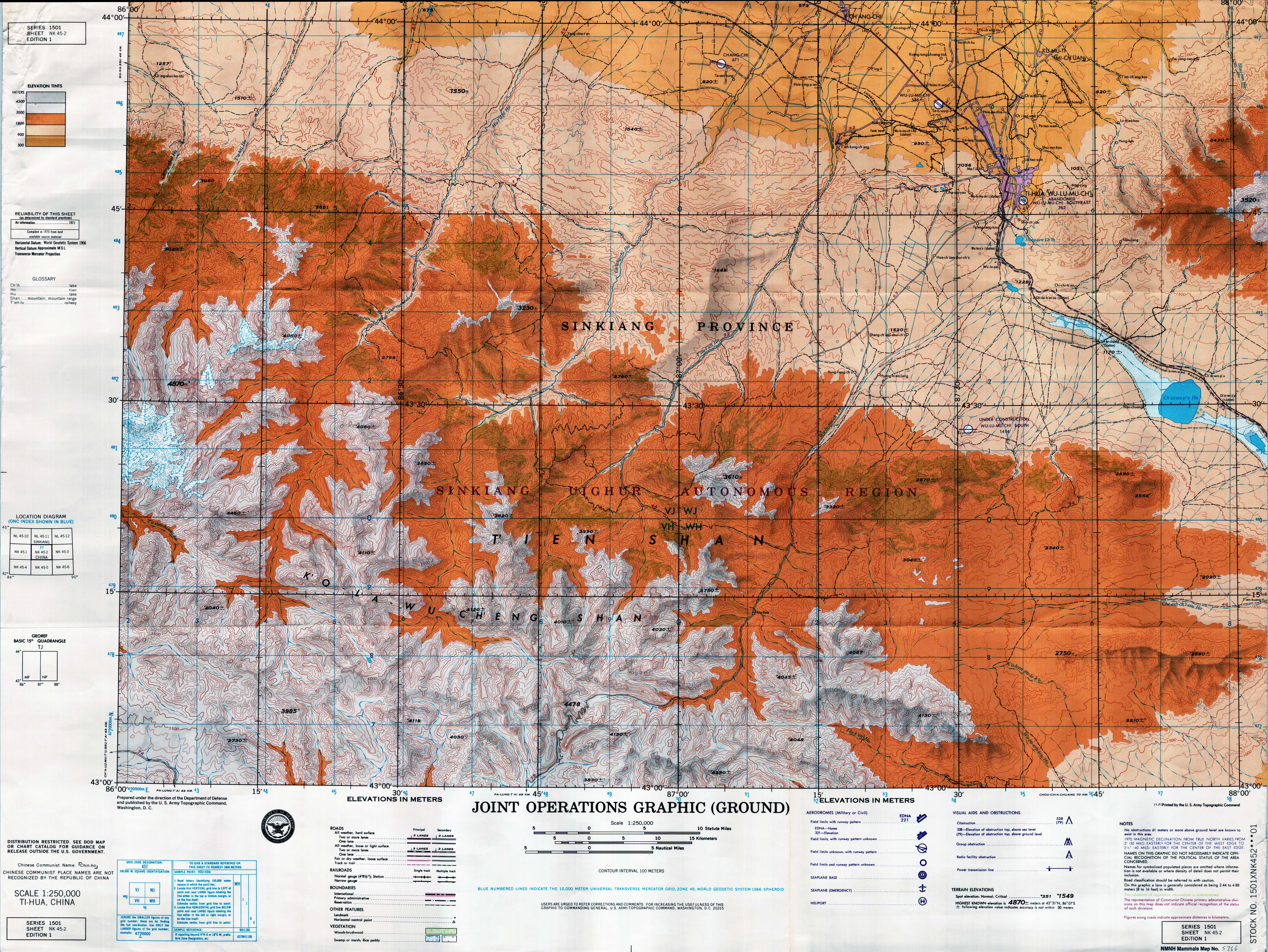 NK-45-02 Ti-Hua China